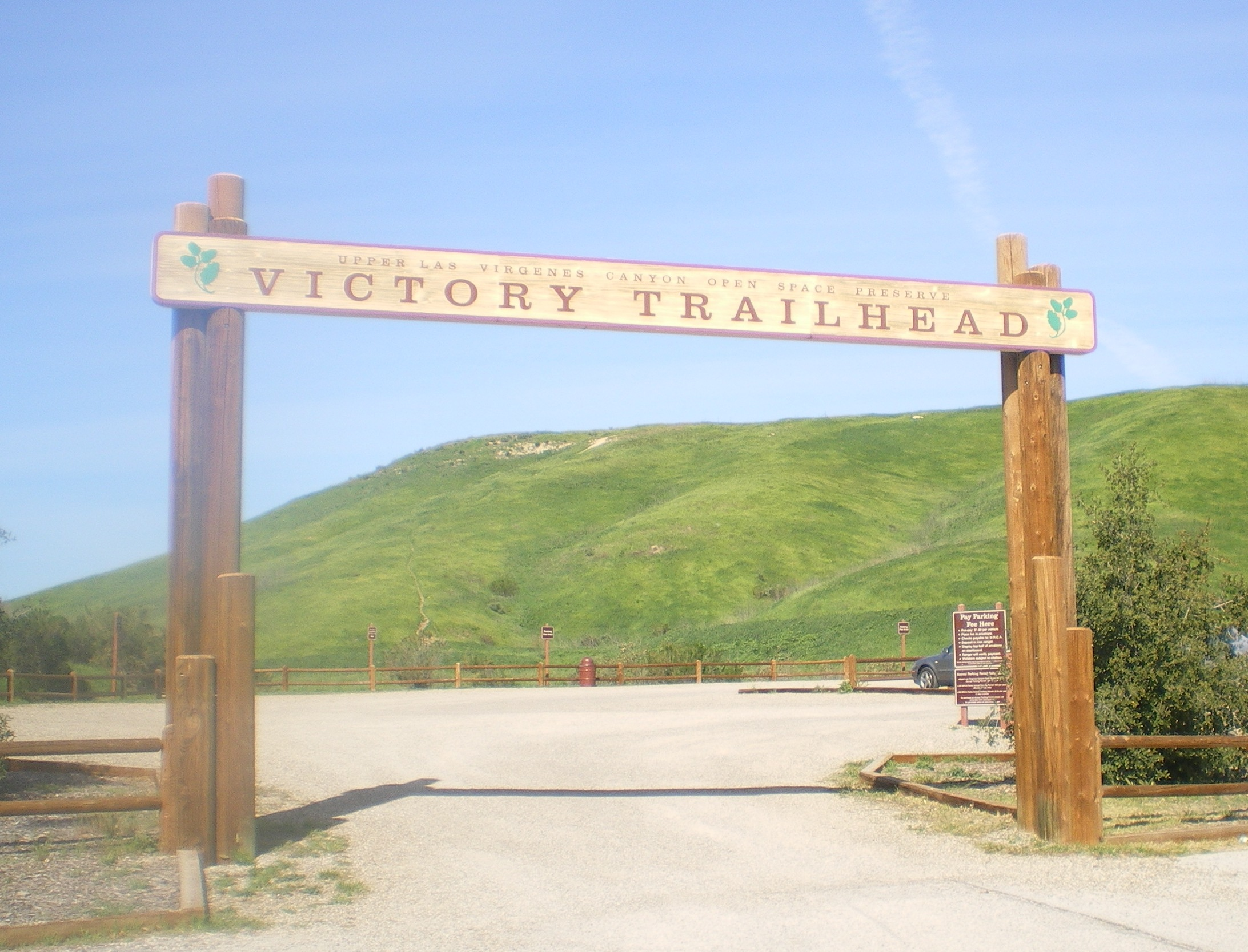 Victory Gateway to the Upper Las Virgenes Canyon Open Space Preserve, in the Simi Hills in spring — Southern California. Located at the end of Victory Blvd. in West Hills, in the western San Fernando Valley of Los Angeles.